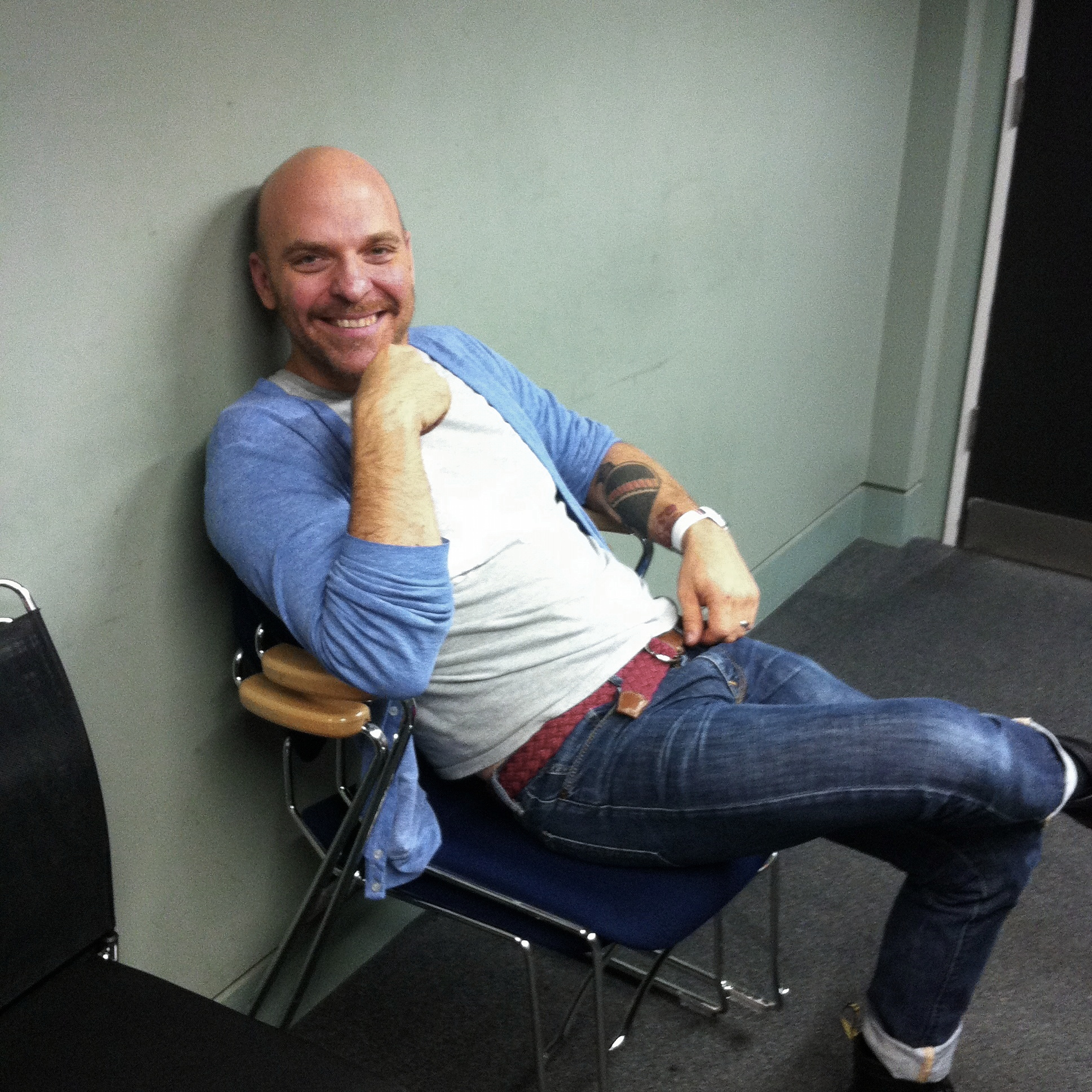 Musician David King (at BBC Radio, London, 2012)